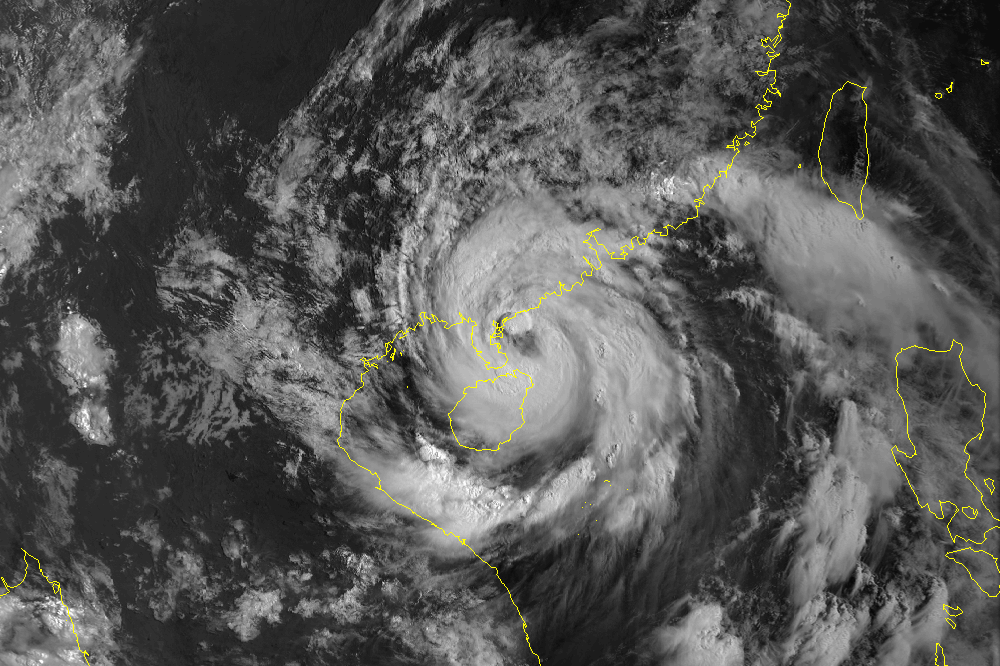 Typhoon Zita before landfall on China